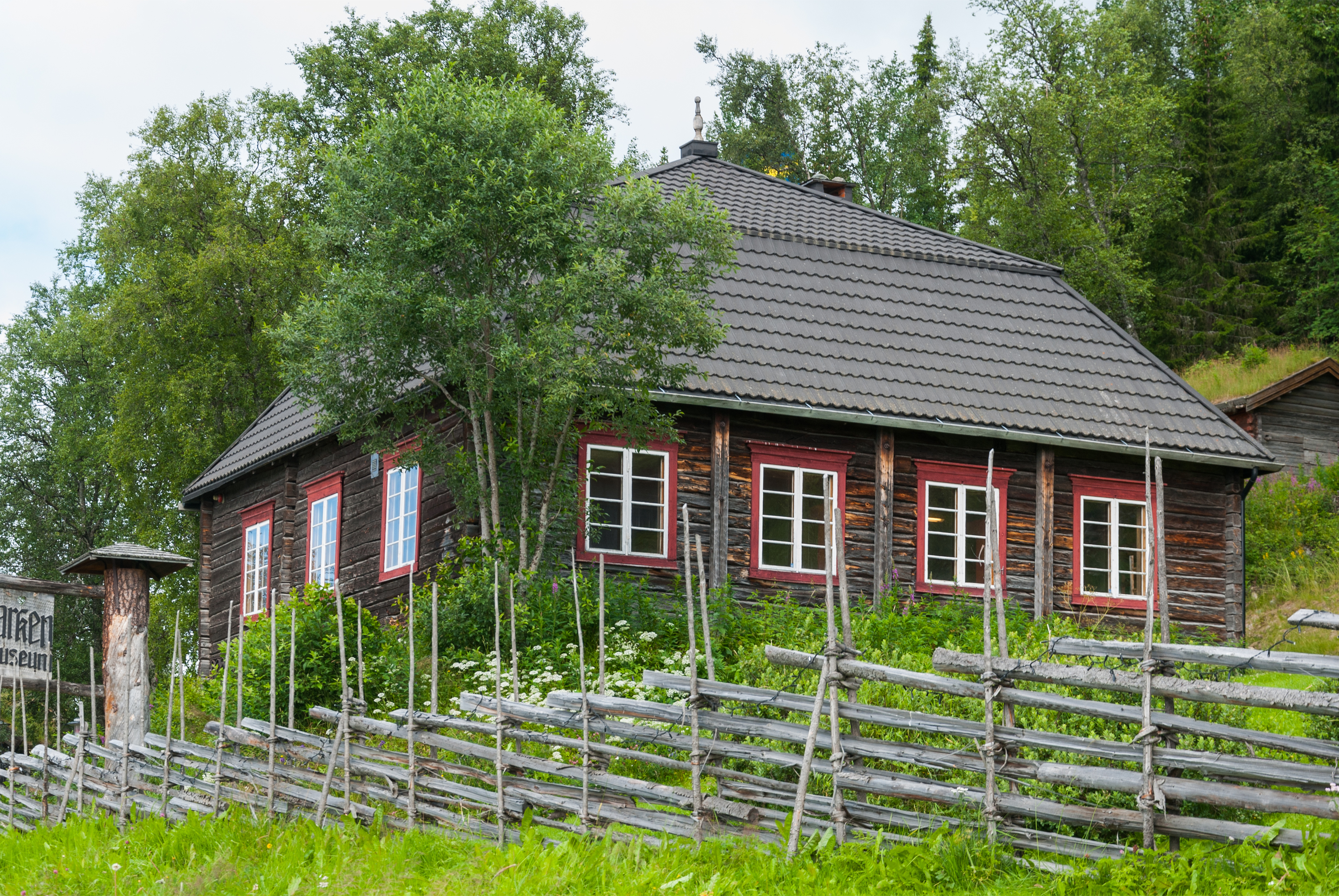 Funäsdalen.